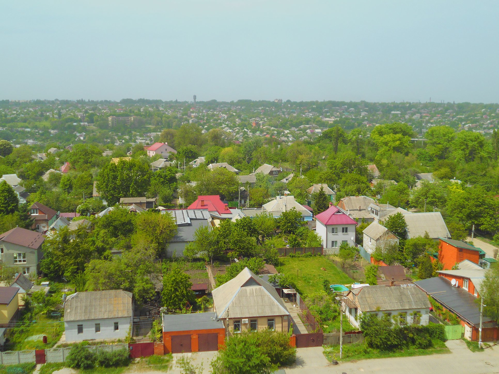 Private houses in the district of Shliahovka, Dnipro, Ukraine